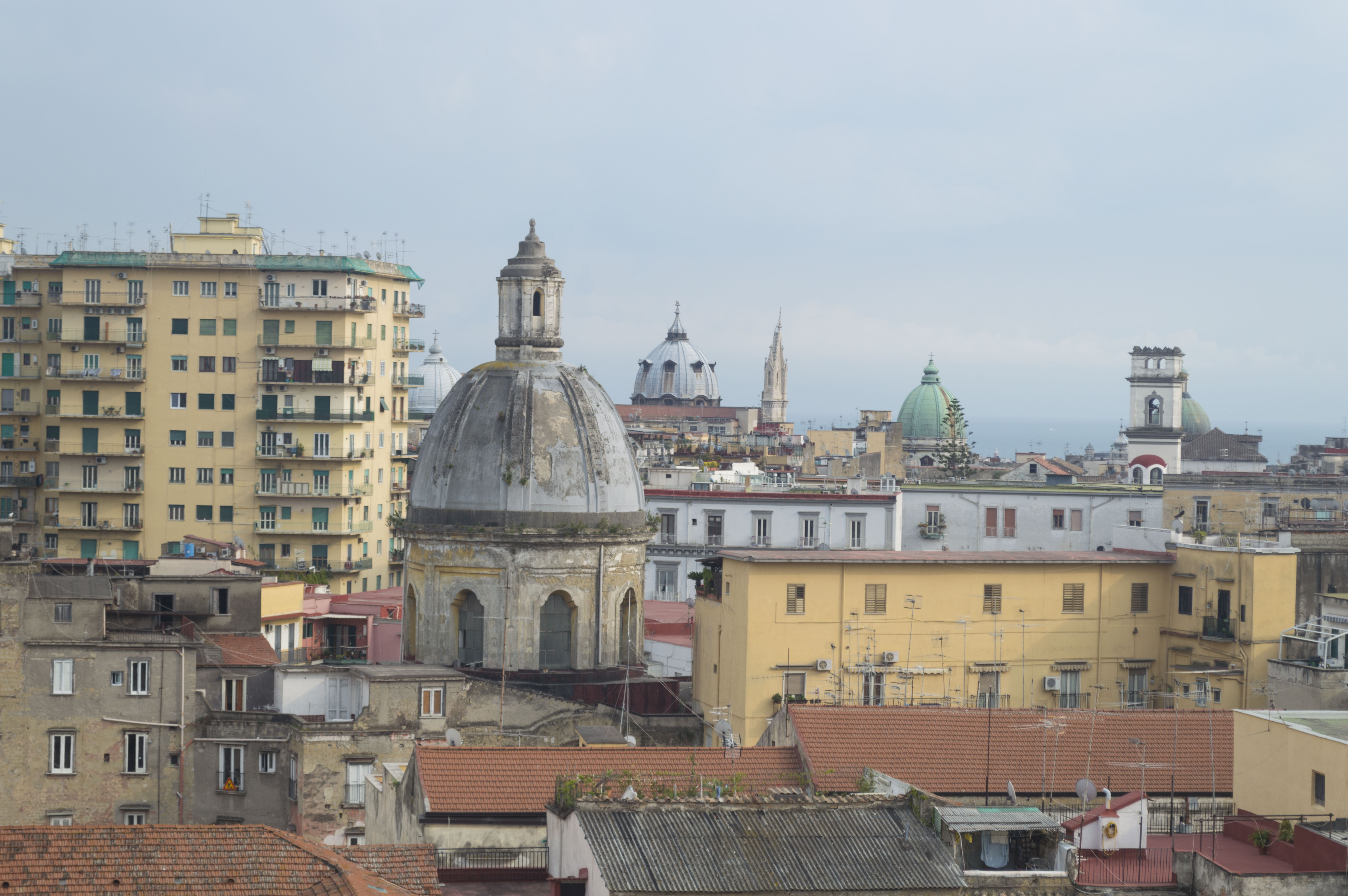 Views of Naples from roof of old monastery of Chiesa di Santa Maria dei Vergini.